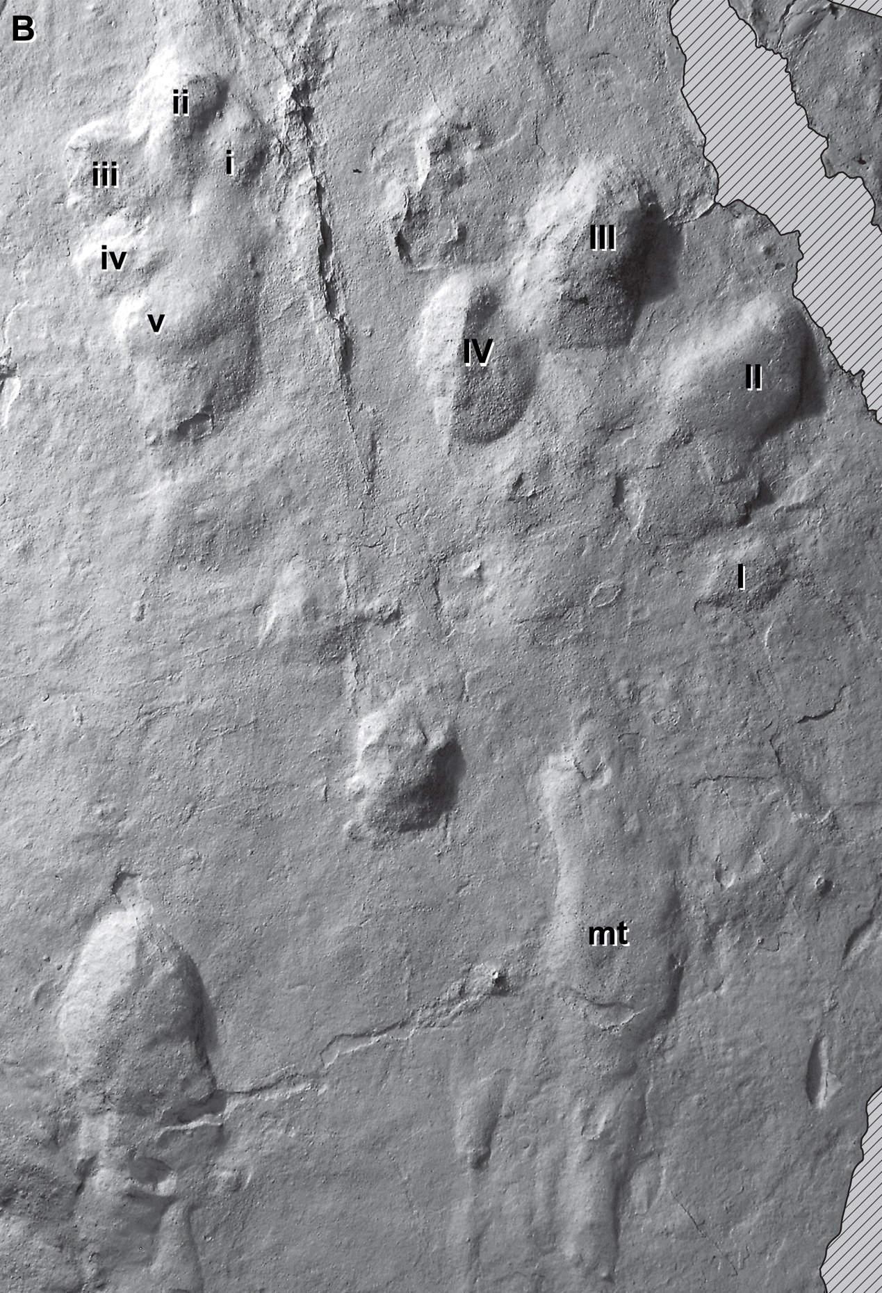 Cropped image of taxon in file name